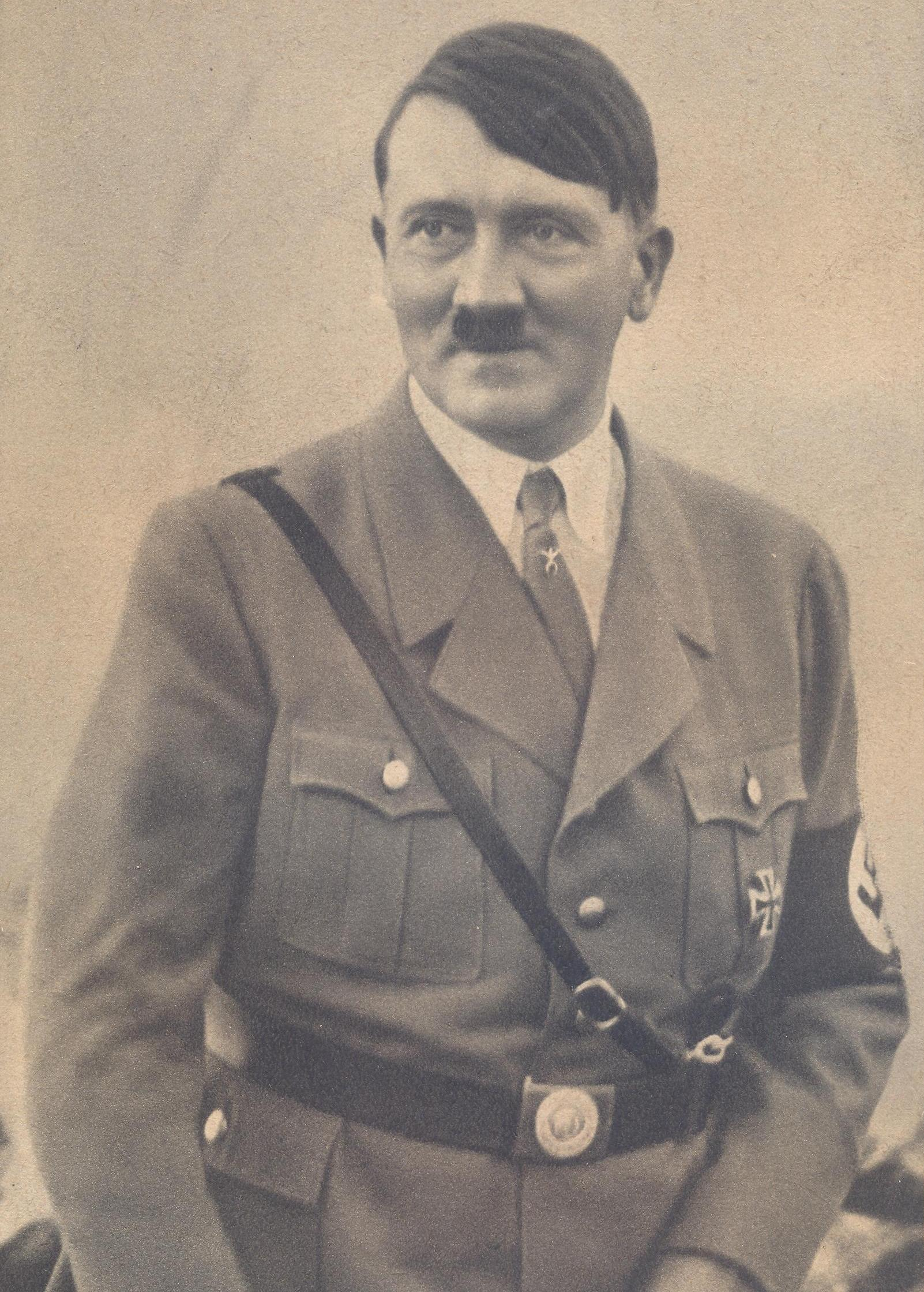 Adolf Hitler